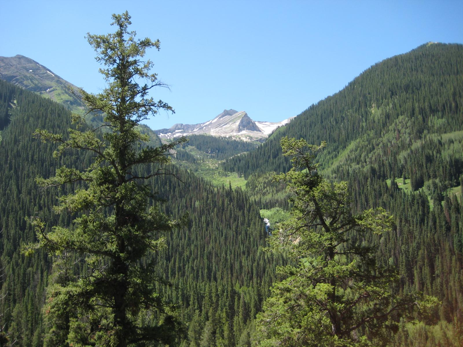 Crystal Peak, Treasure Mountain, Bear Mountain, Colorado. Taken from Crystal River near the Bear Basin area, facing southwest.